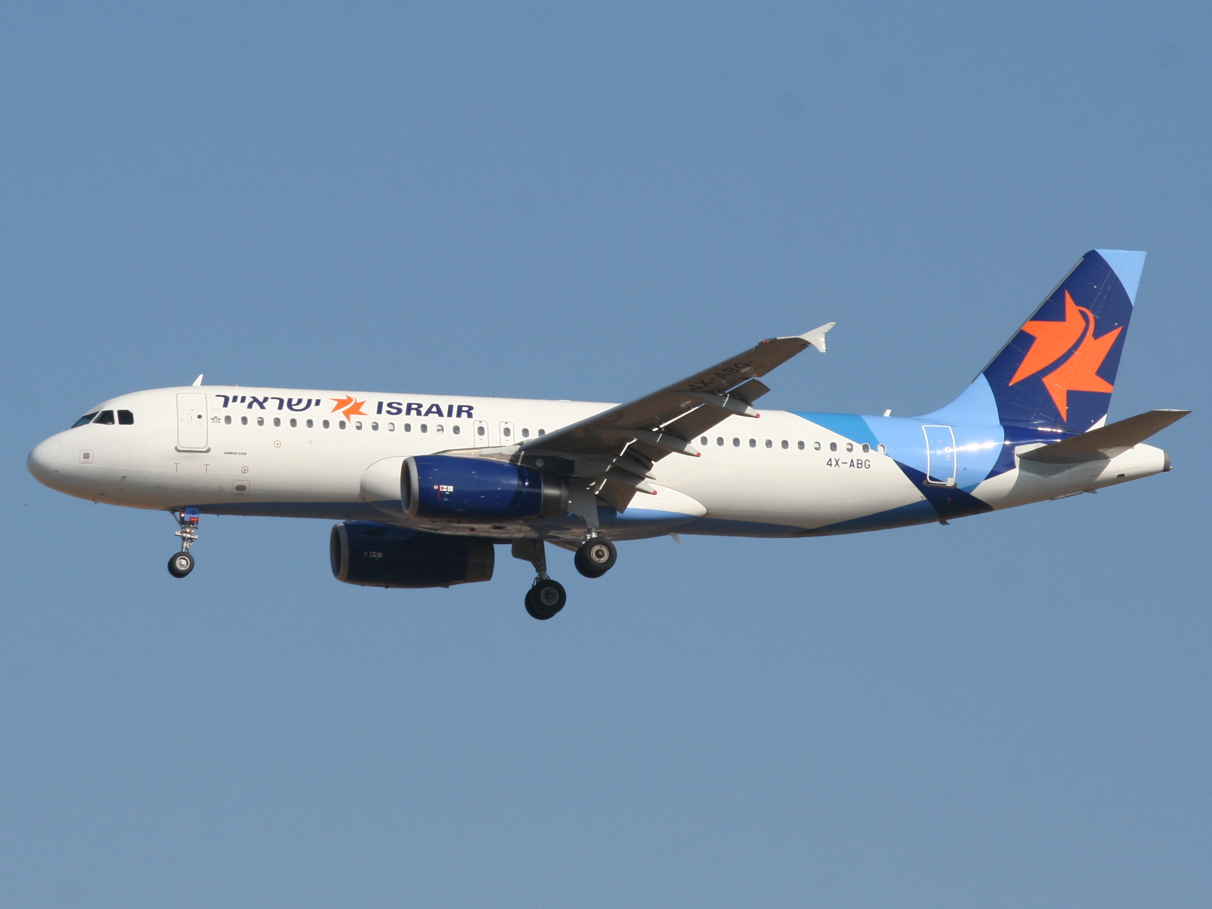 Landing at Ben Gurion International airport